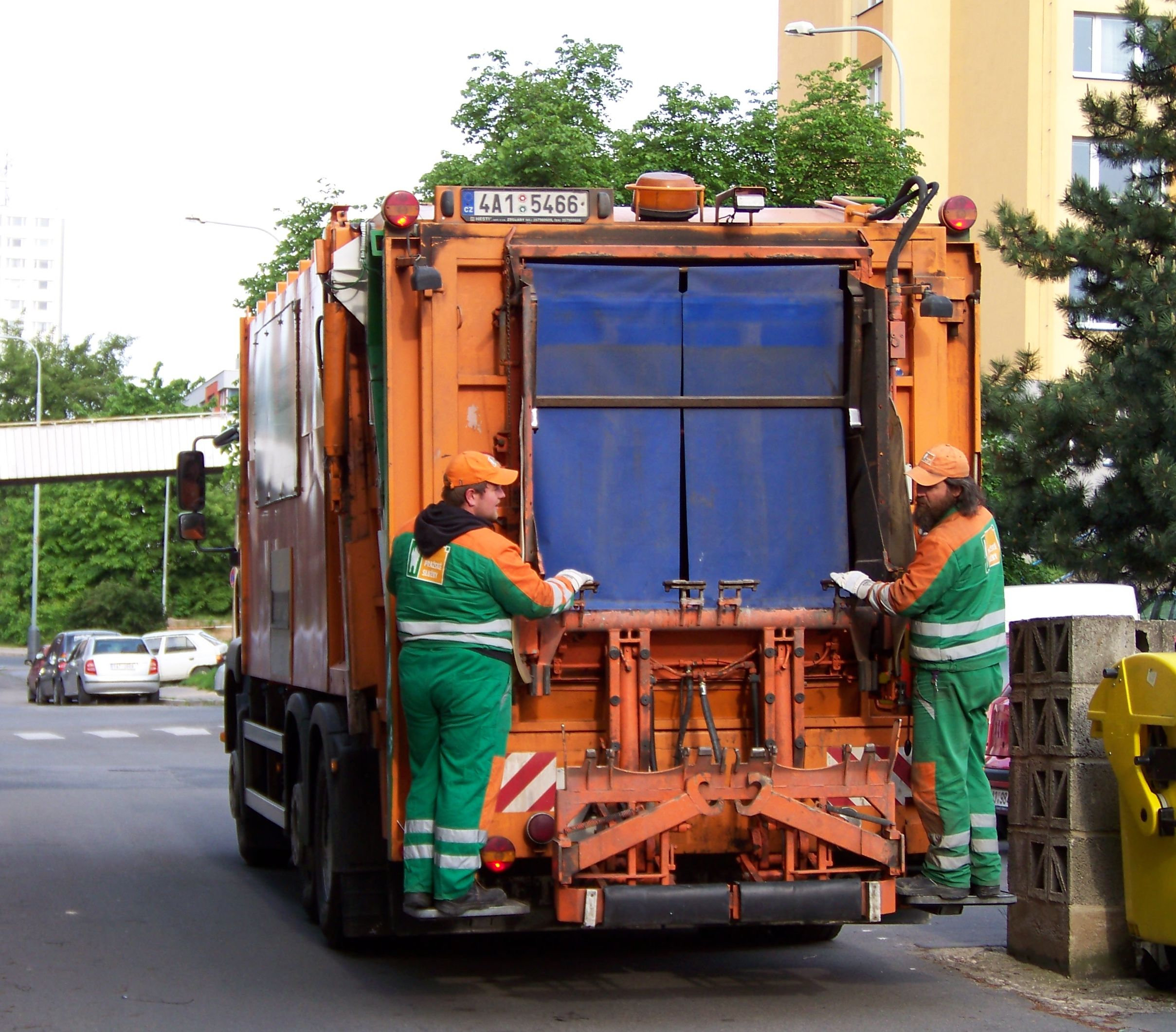 Háje, Prague, the Czech Republic. A waste collection truck of Prague Services in Štichova street.